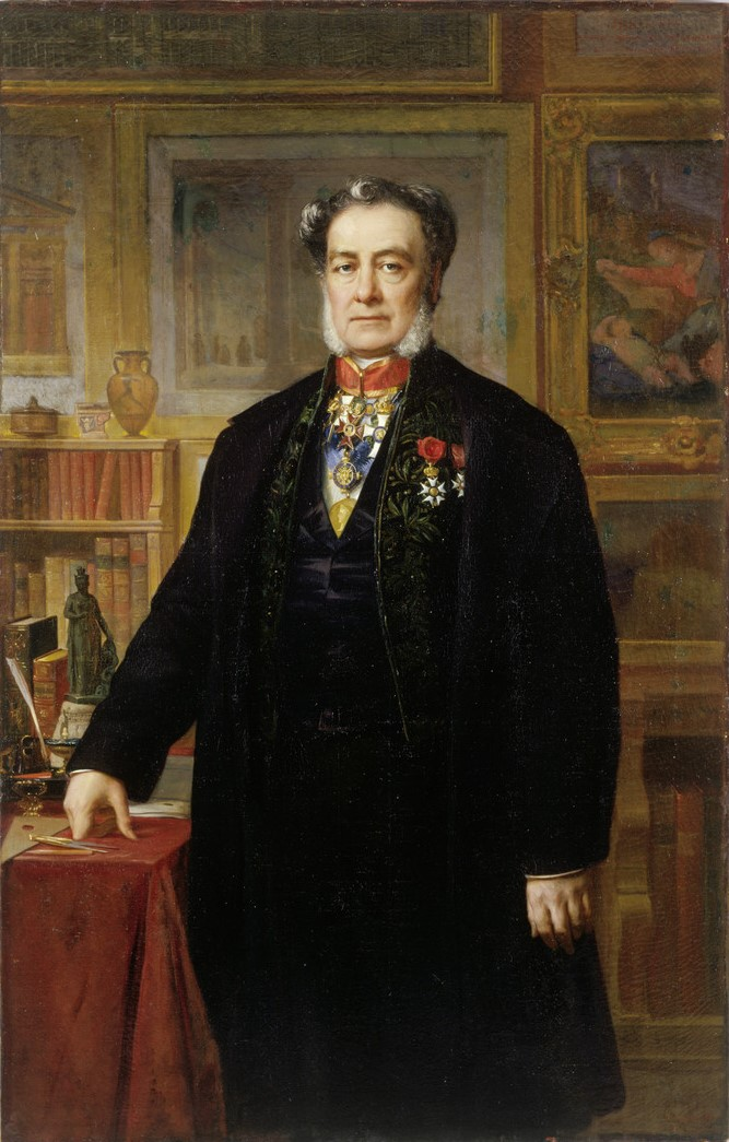 portrait painting of Jacob Ignaz Hittorff